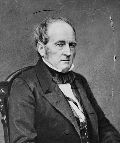 American politician John Bell (1797–1869).